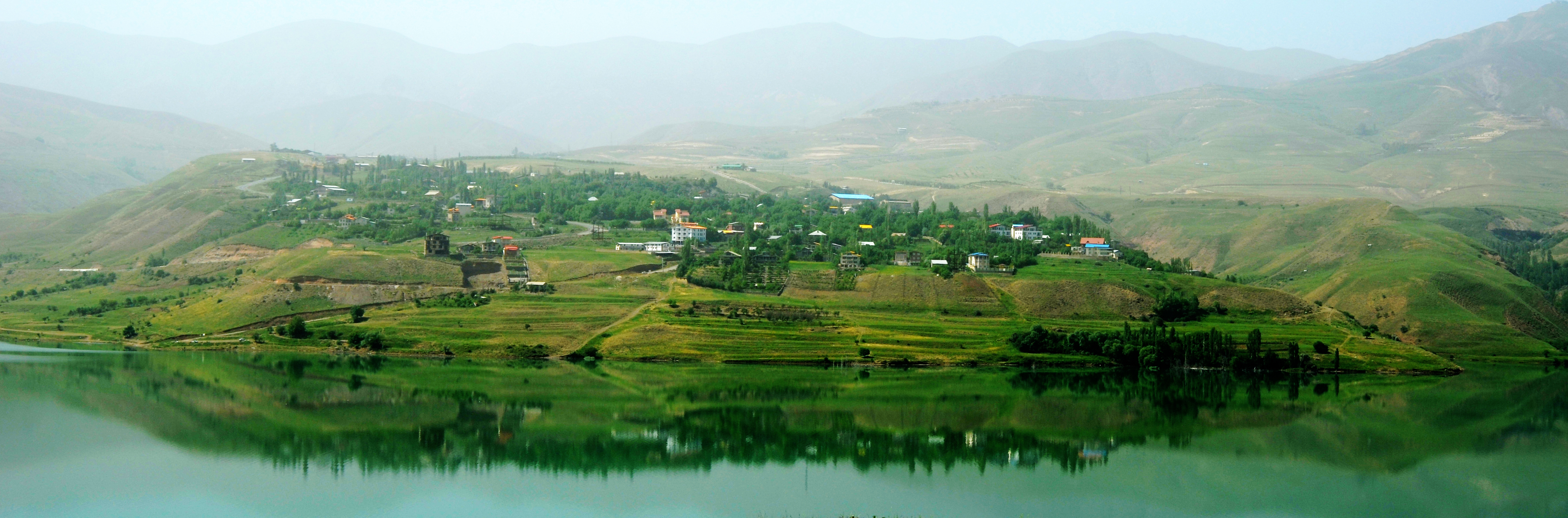 Taleghan lake, Taleghan County, Iran.